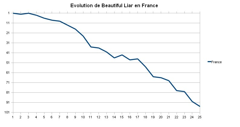 Evolution in the French chart of Beyoncé Knowles and Shakira's song Beautiful Liar.